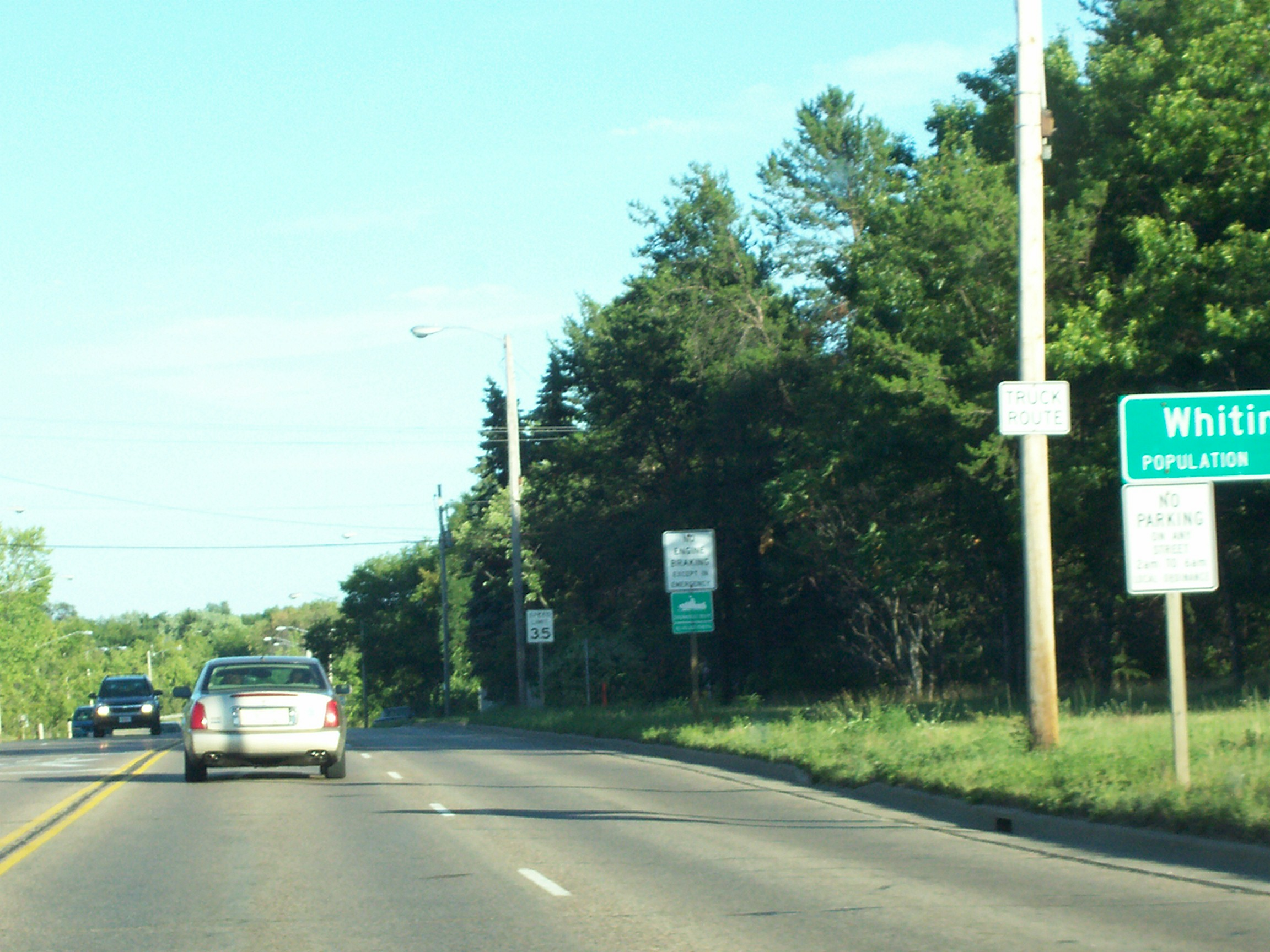 Looking south at the DOT sign for Whiting, Wisconsin, USA on Business Route 51 (formerly U.S. Route 51).